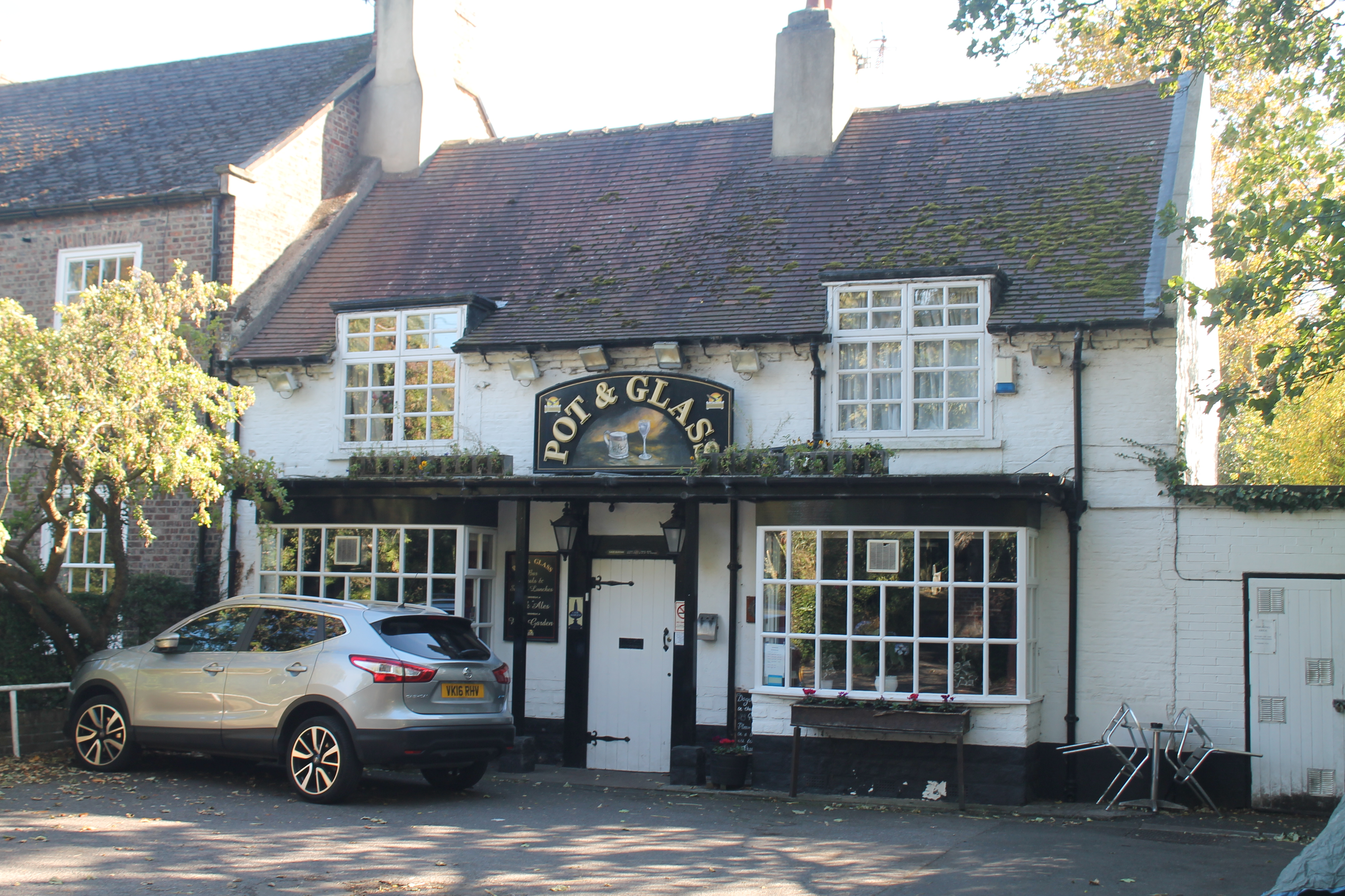 Pot & Glass pub, Egglescliffe.